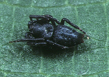 male Cyrtophora exanthematica from Okinawa.